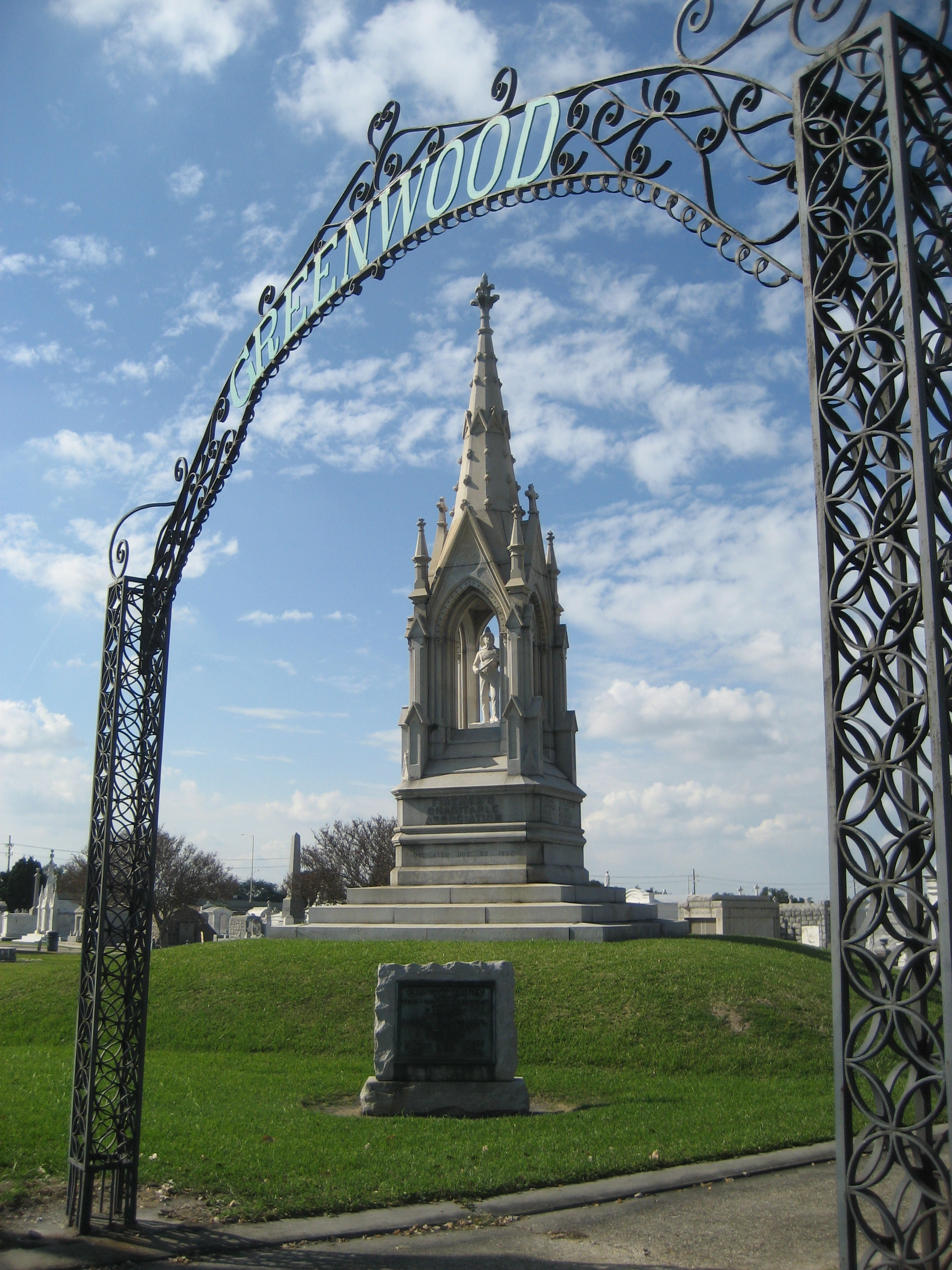 Greenwood Cemetery, New Orleans. Entrance gate on Metairie Road/City Park Avenue, with Fireman's Monument.